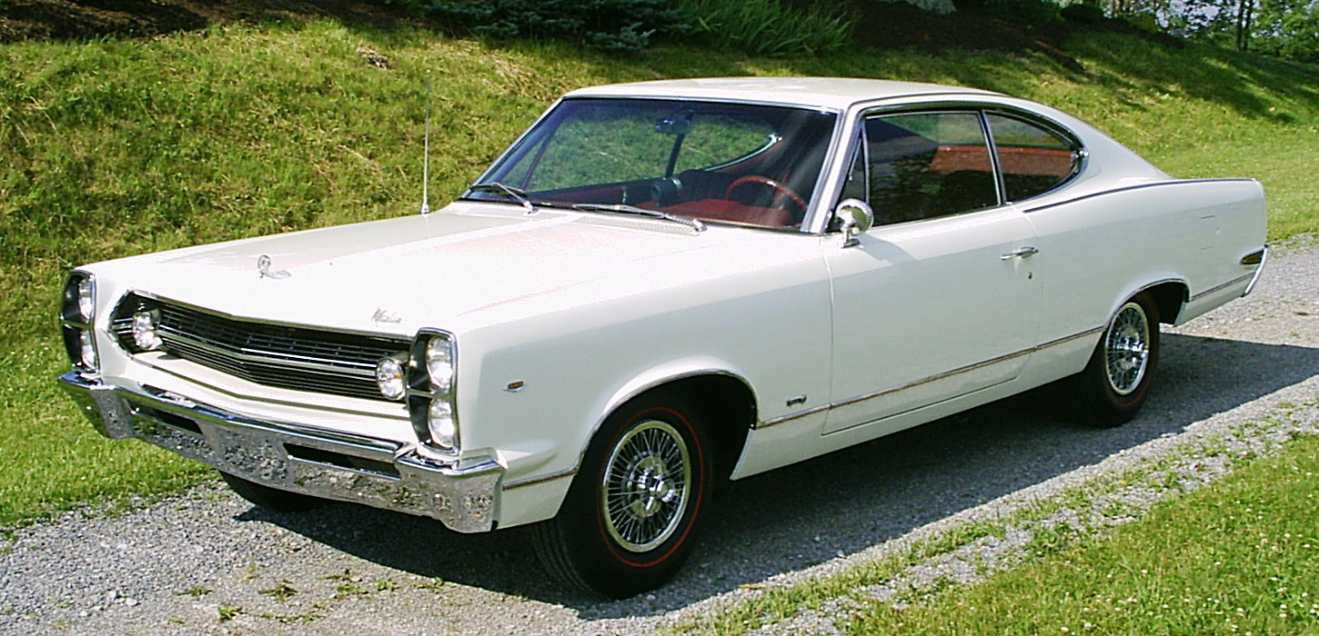 1967 American Motors (AMC) Marlin two-door fastback hardtop - no "B-lillar". Front left view with side windows up. Finished in white with a red interior.